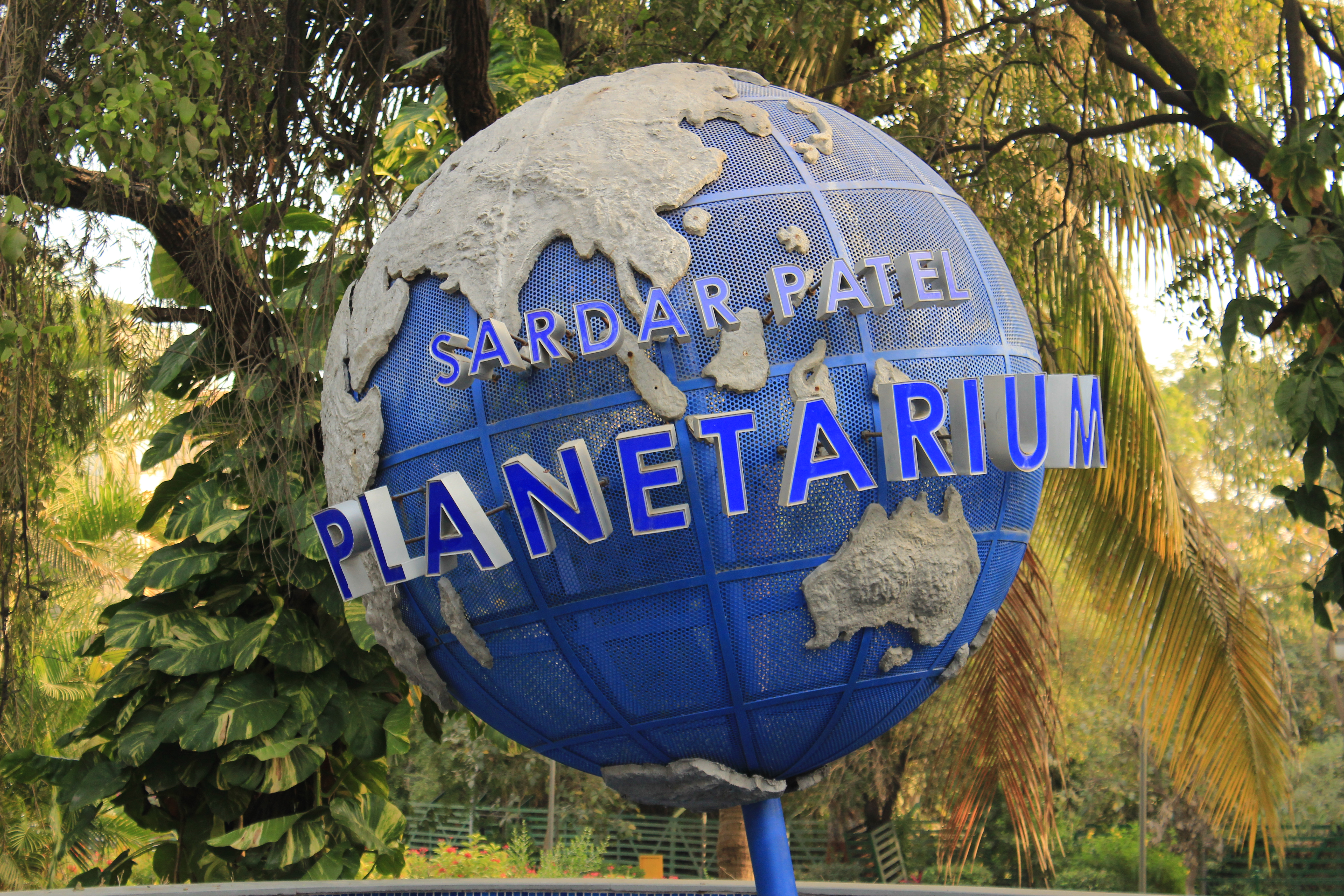 Saradar Patel Planetarium, Vadodara ગુજરાતી: સરદાર પટેલ પ્લેનેટોરીયમ